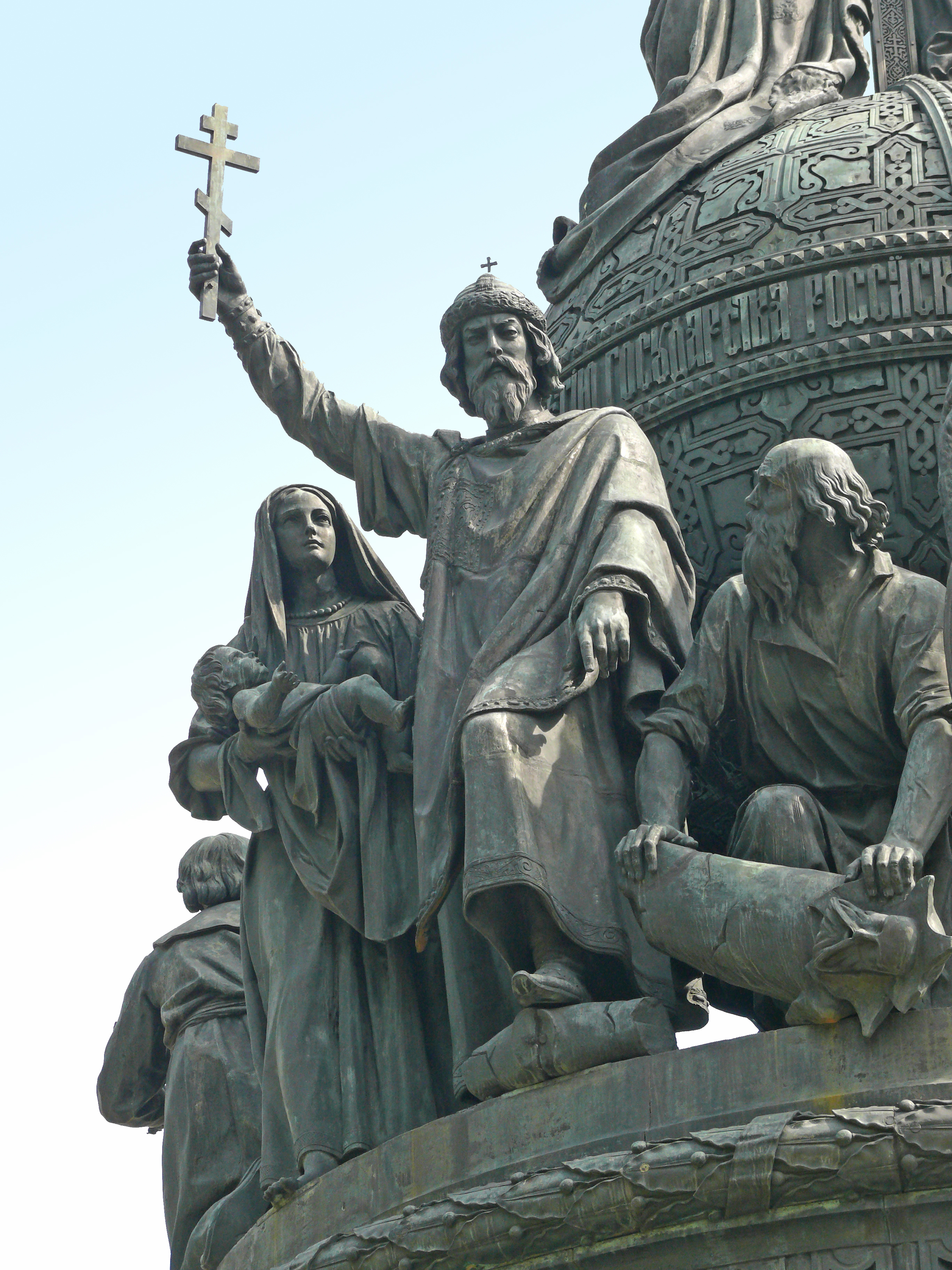 Vladimir of Kiev on the Monument "Millennuim of Russia" in Veliky Novgorod